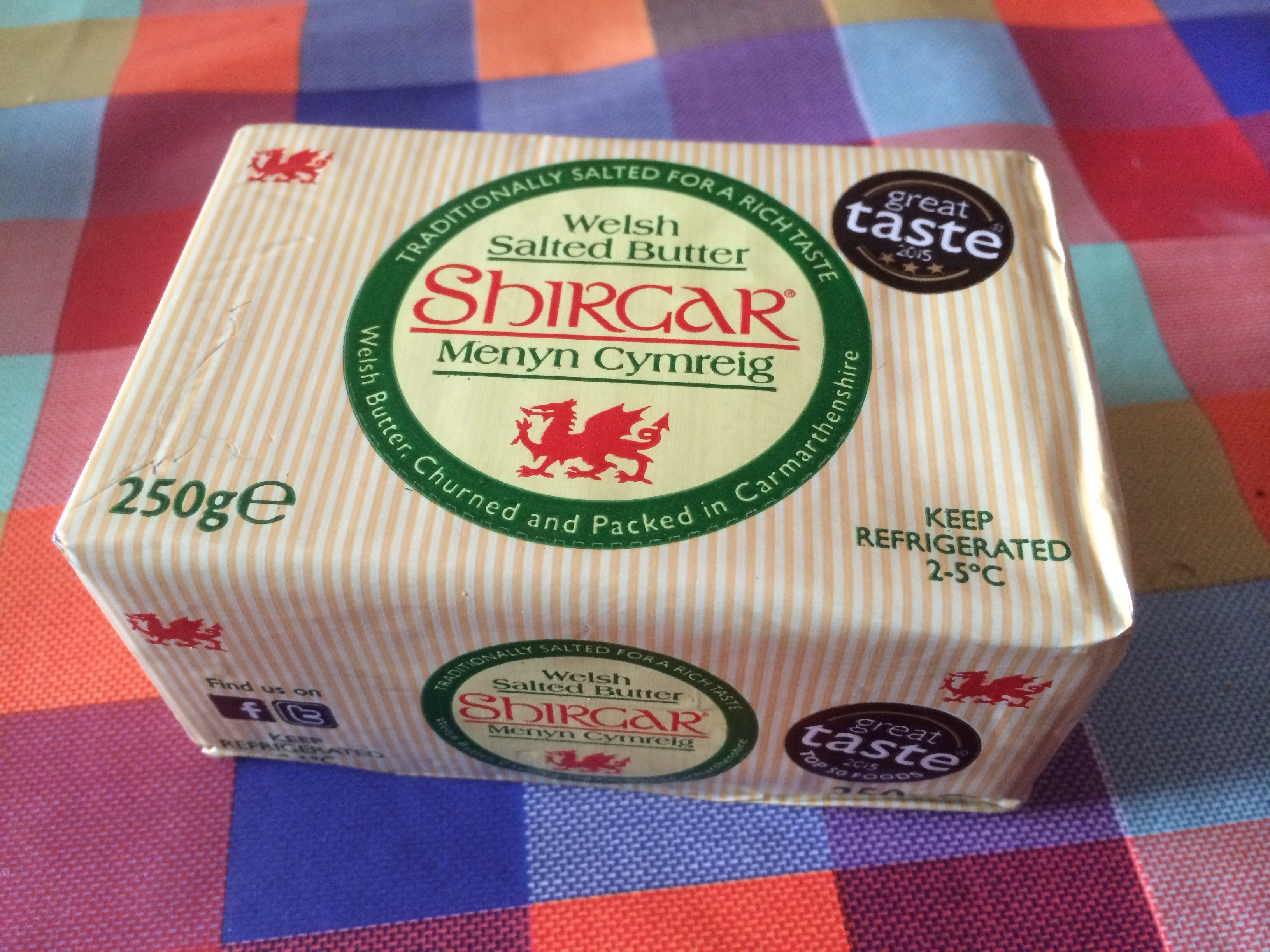 Shirgar, Menyn Cymreig, Welsh salted butter